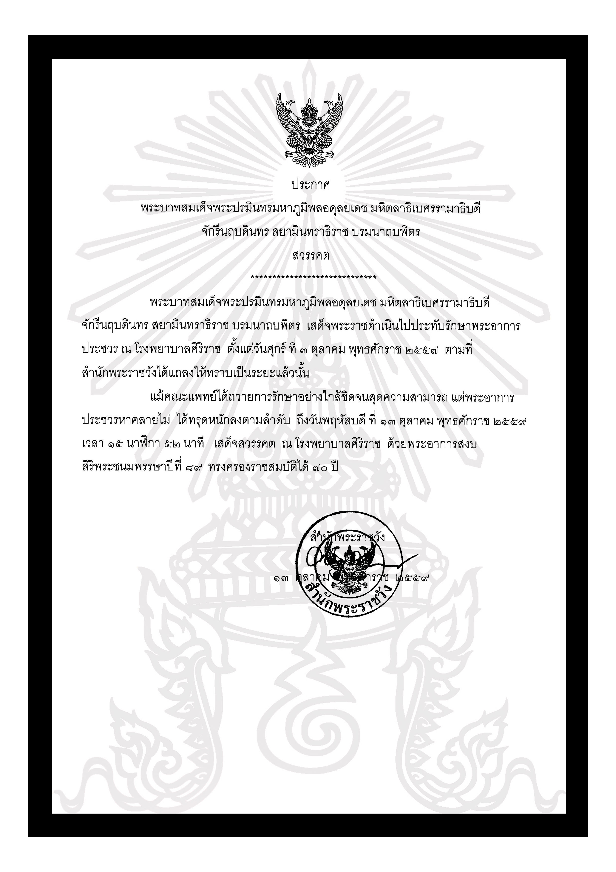 Announcement from the Bureau of the Royal Household for HM King Bhumibol Adulyadej's death in 13 October 2016, at 15:52 (local time: UTC+07:00).